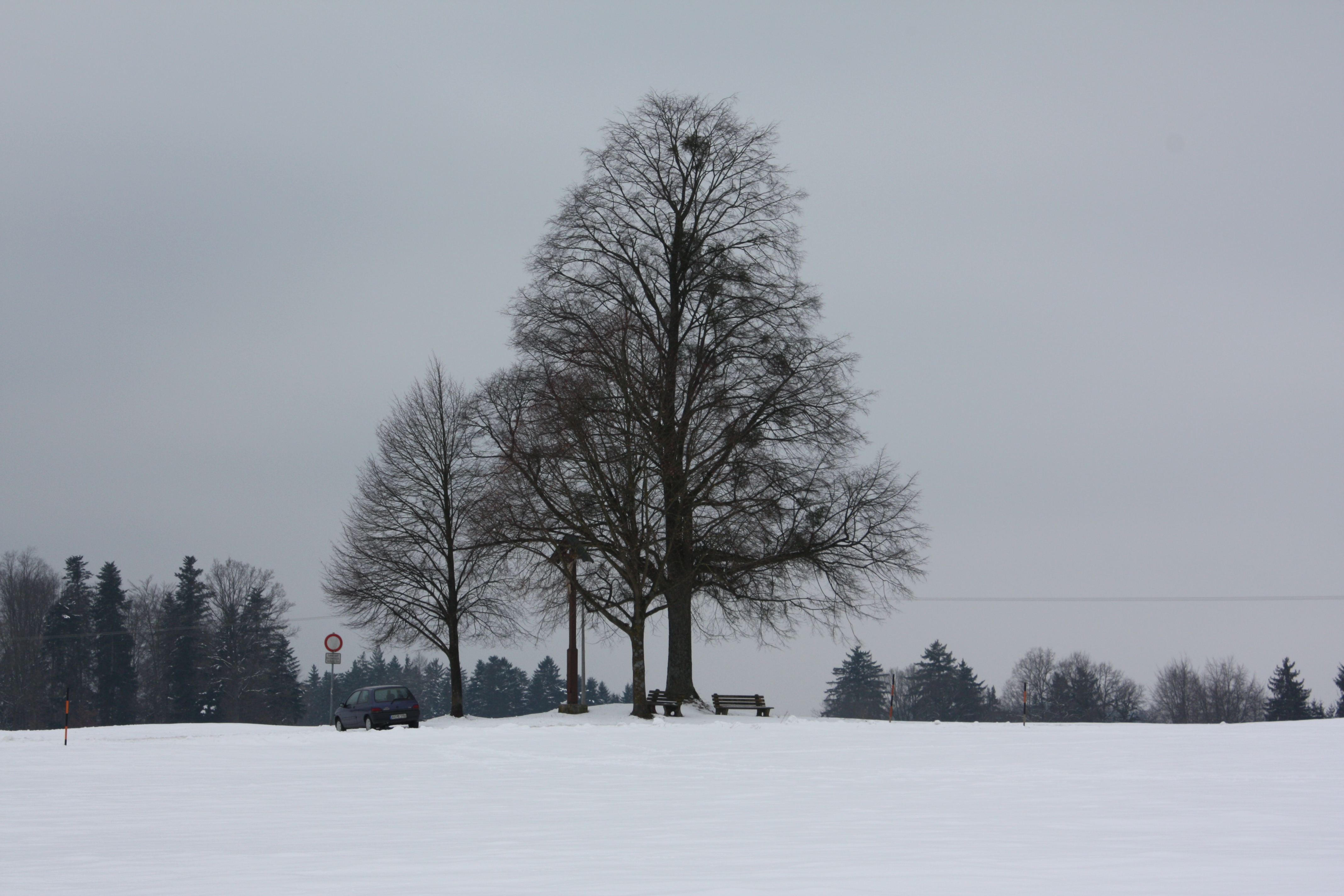 Lime trees in Rehnenhof-Wetzgau, part of Schwäbisch Gmünd, Germany, named after Saint Coloman ("Kolomanslinden"). In the 18th Century, at Whitmonday started a churches parade from this place to the St. Coloman Church in Wetzgau.